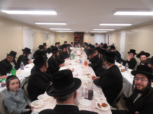 His Chassidim